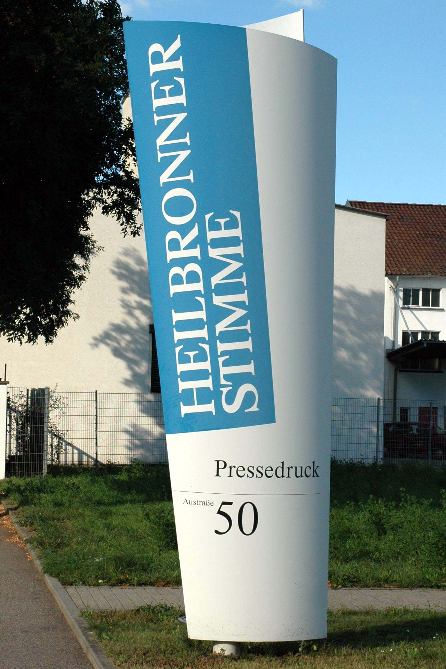 sign at the printing plant of the newspaper Heilbronner Stimme in Heilbronn (Germany)